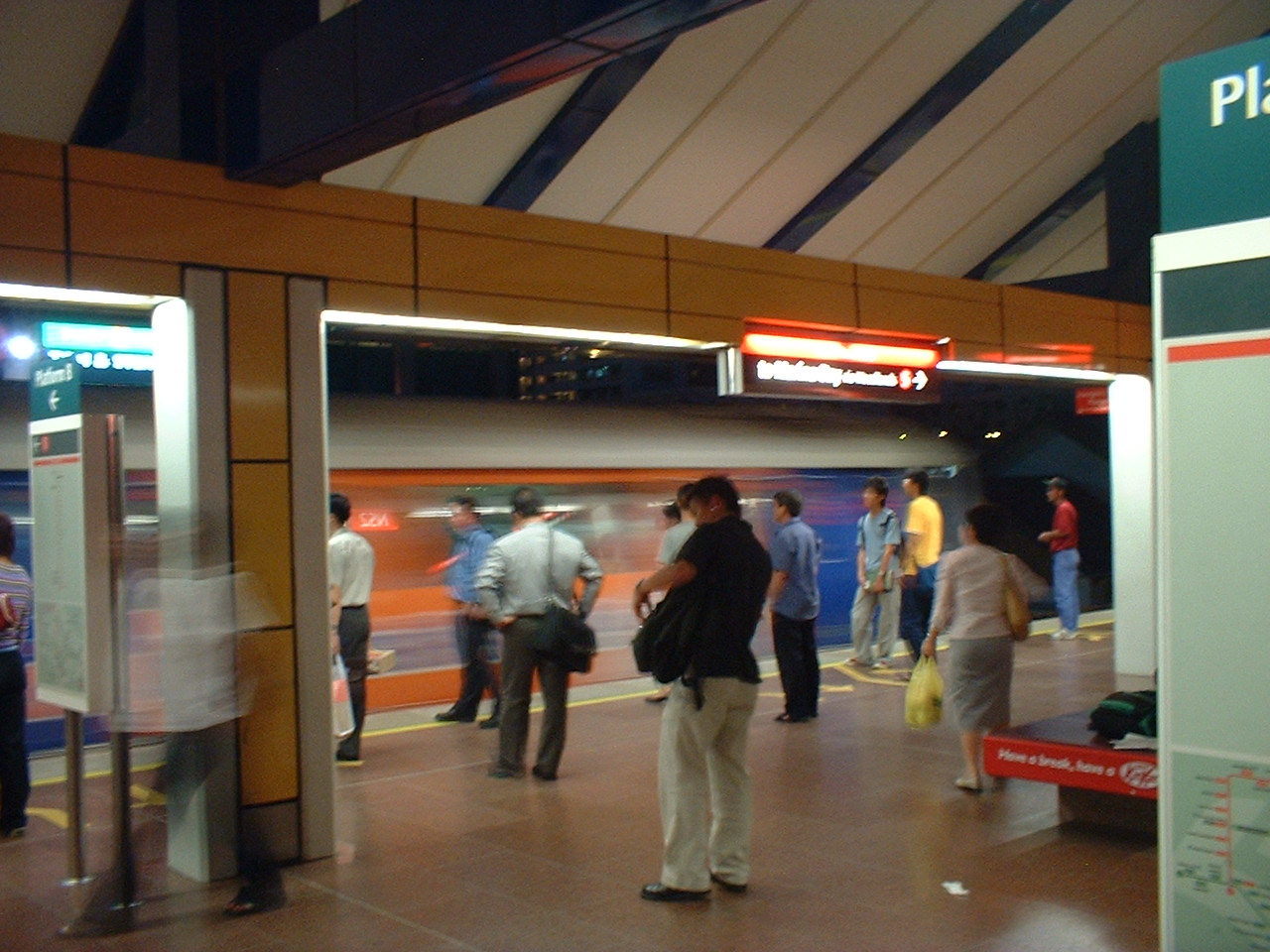 Public transportation in Singapore is relatively easy, convenient and cheap to use. This photo depicts the platform level of Bukit Batok MRT station.